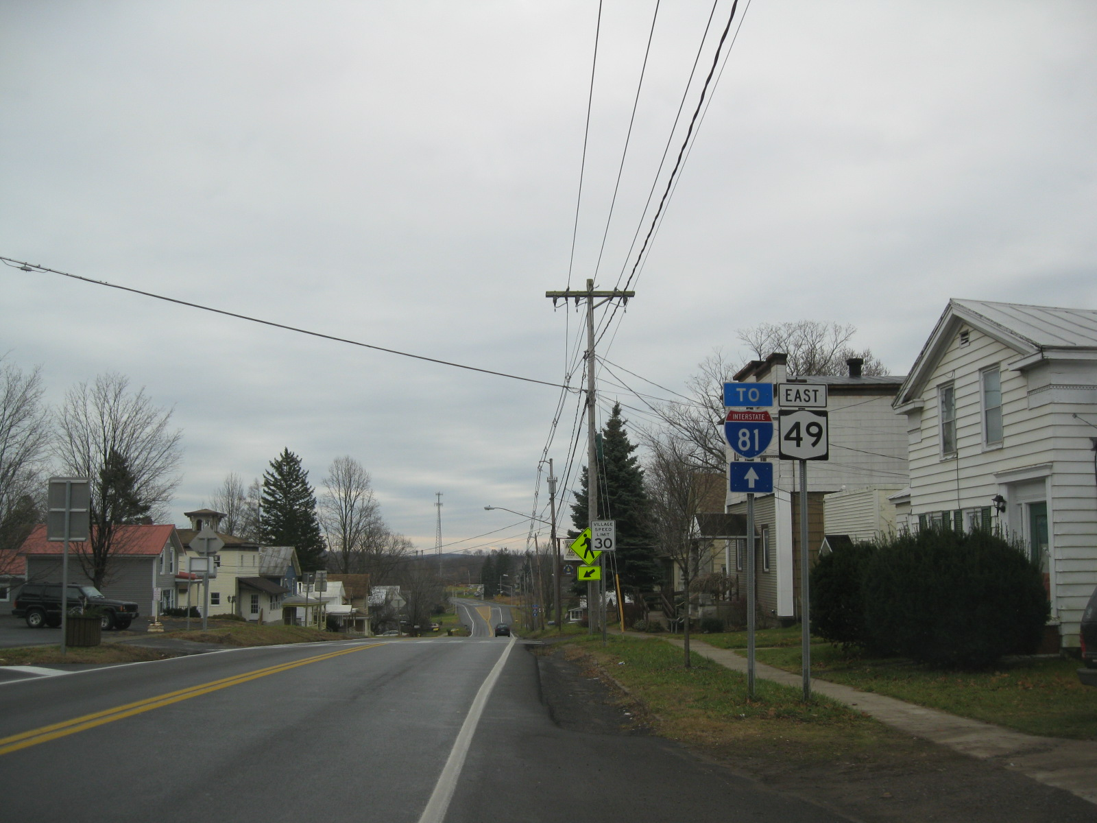 Eastbound on New York State Route 49 in the village of Central Square. U.S. Route 11 is a short distance to the west in the village center while Interstate 81 bypasses the community to the east.